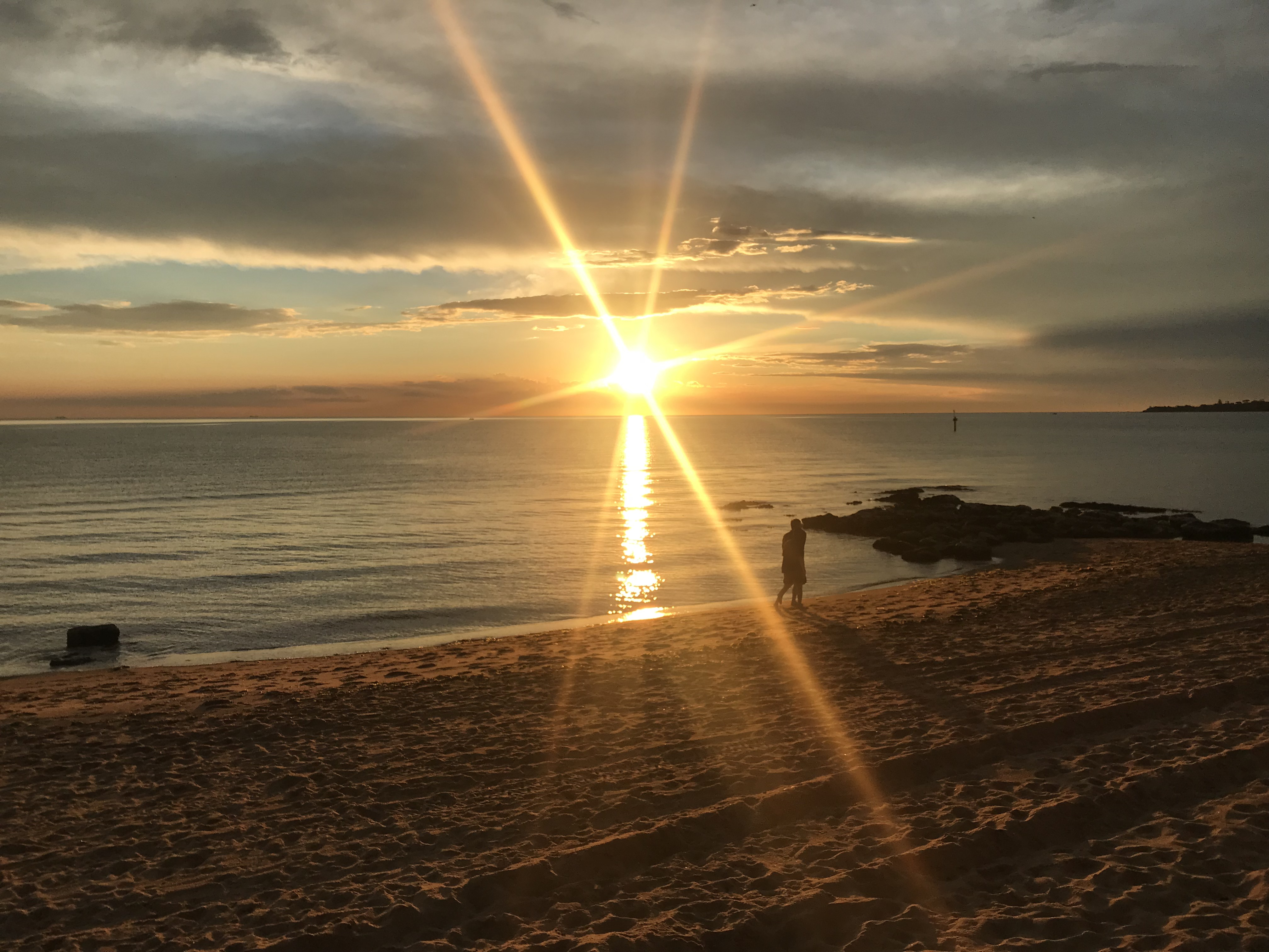 A beautiful sunset at Parkdale Beach.